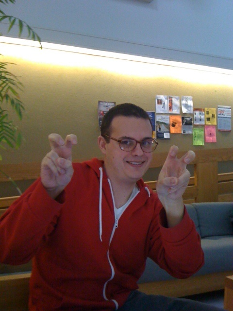 Air Quotes